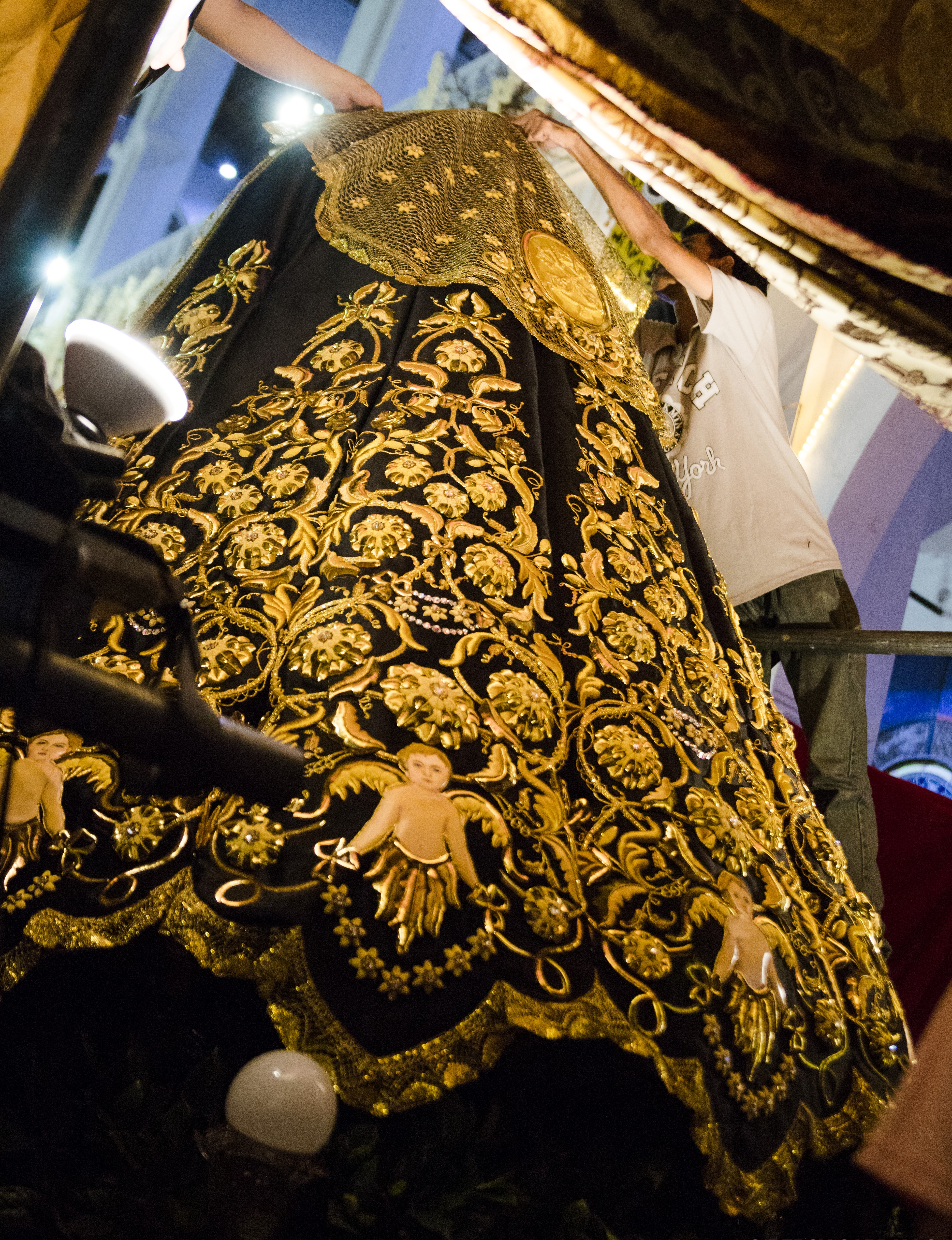 cape or mantle of our Lady of Solitude of Porta Vaga